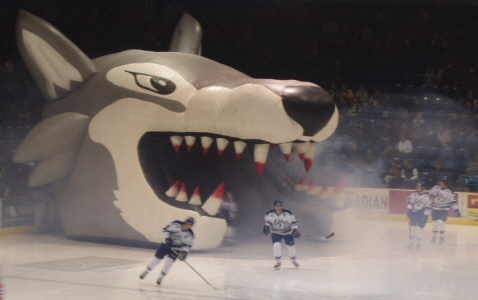 self taken photo